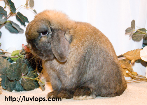 This is a photo of a show quality Holland Lop tort buck from Luv Lops Rabbitry.